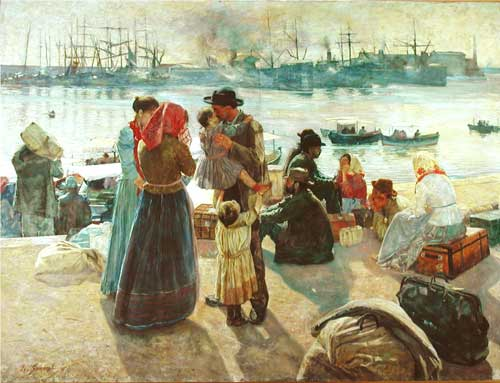 Tuscan emigrants leaving Italy for New Zealand, 1890s, Leghorn.